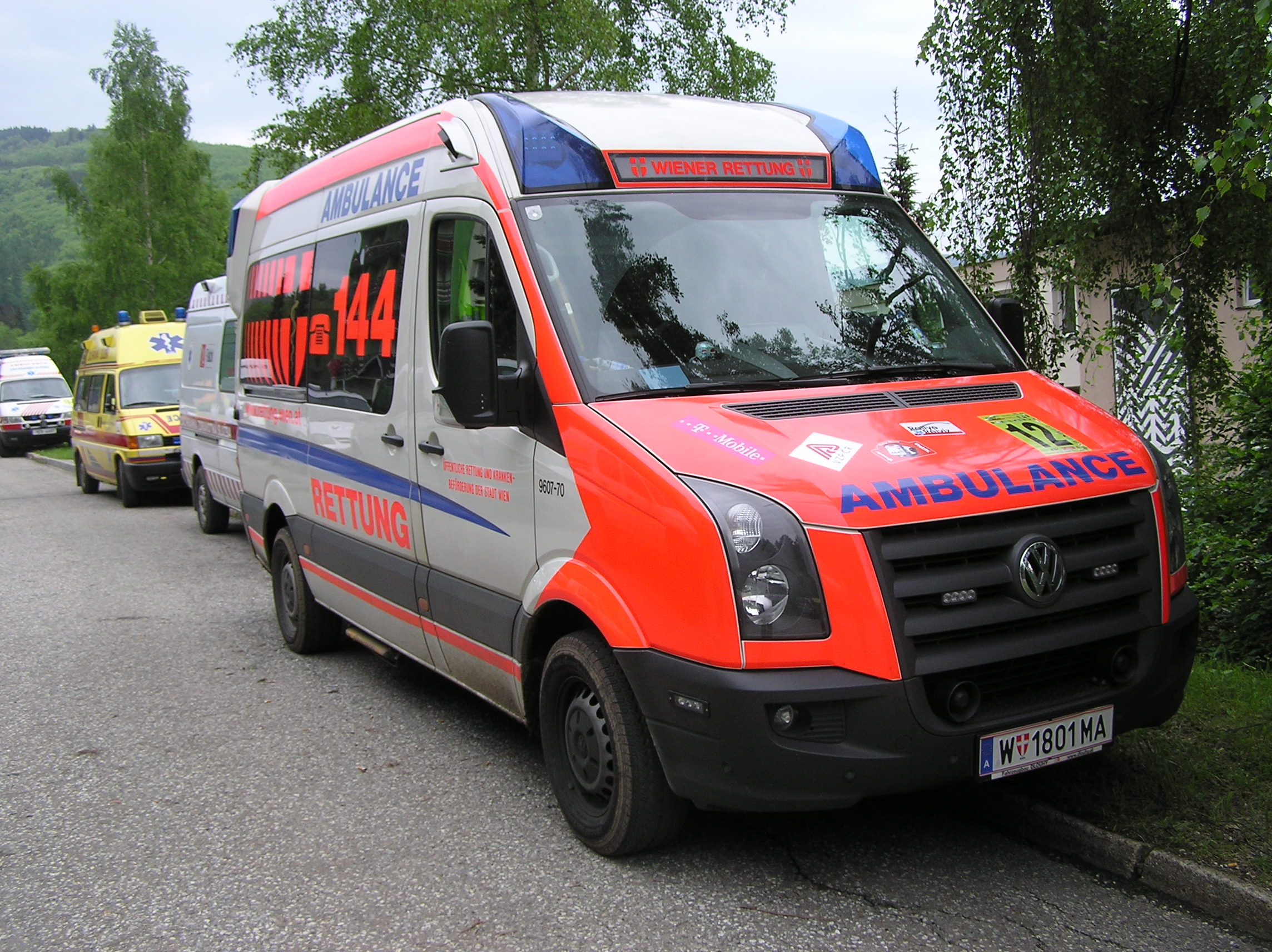 Volkswagen Crafter EMS Vienna, Austria Photo was made in Czech Republic on Rallye Rejvíz